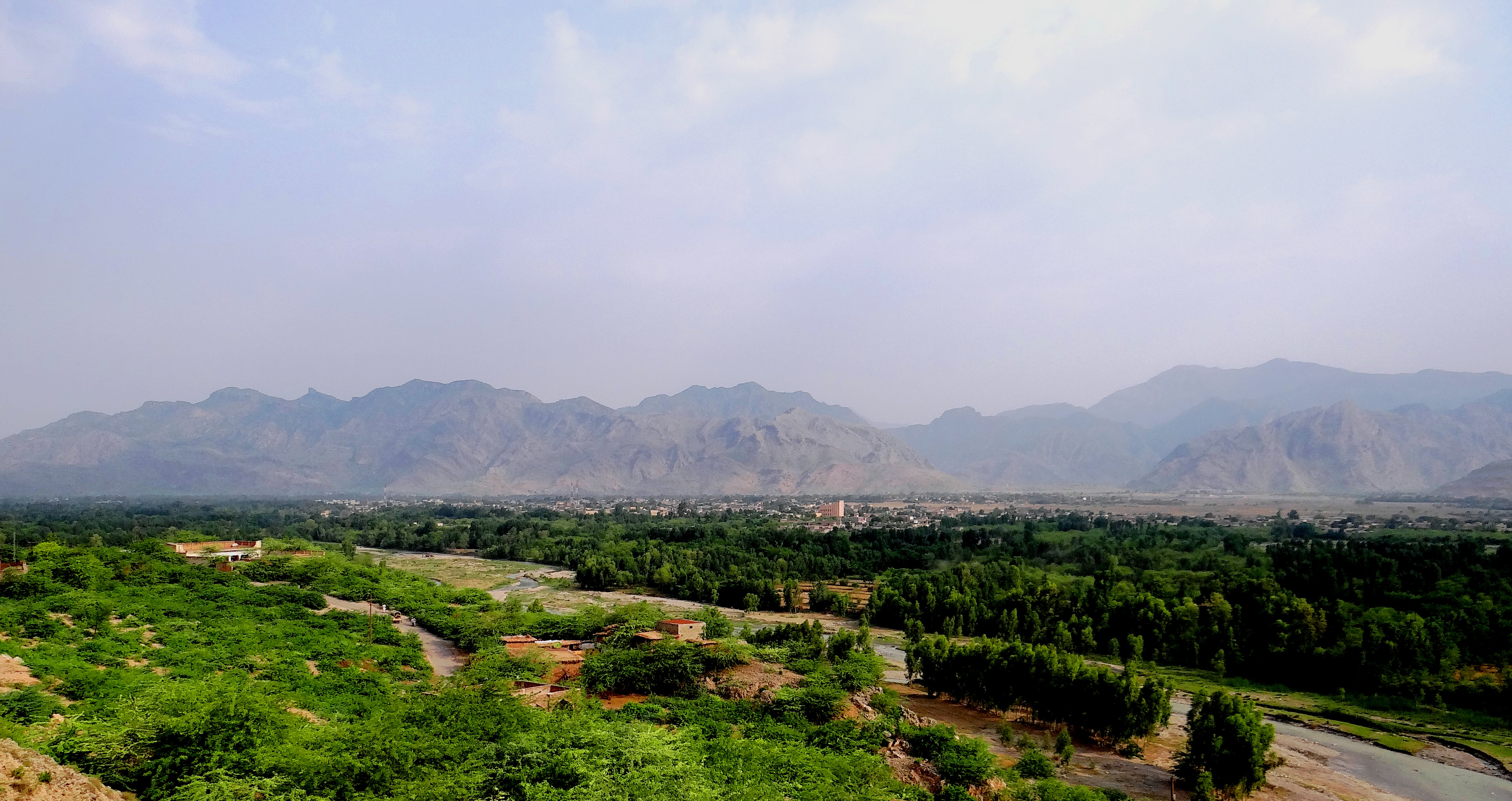 Kohat Velly